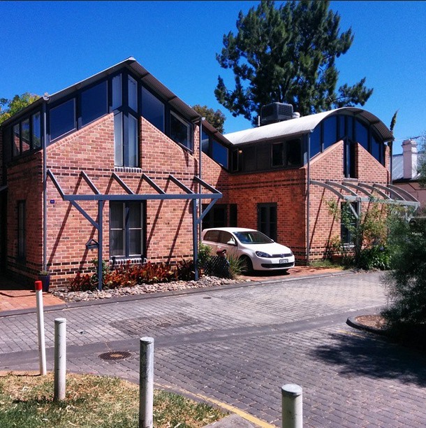 Kensington Townhouses (SA), designed by Phillips/Pilkington Architects, built 1990